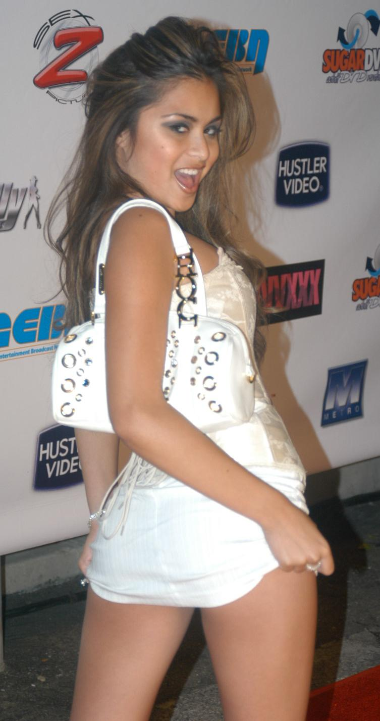 Michelle Maylene at West Coast Productions Party.